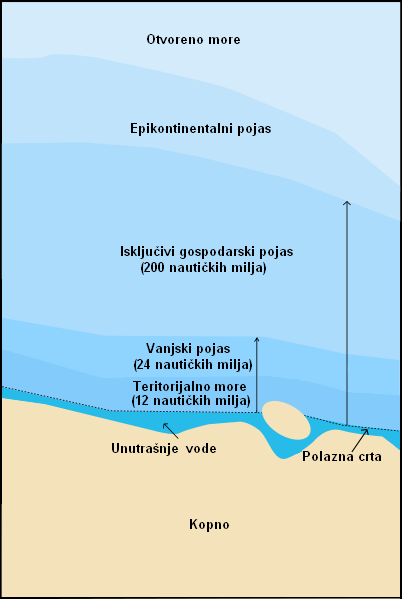 Sea areas in international rights.